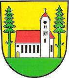 Blazon of Waldkirch, Canton of St. Gallen - Blazono de Waldkirch, Kantono de Sankt-Galo